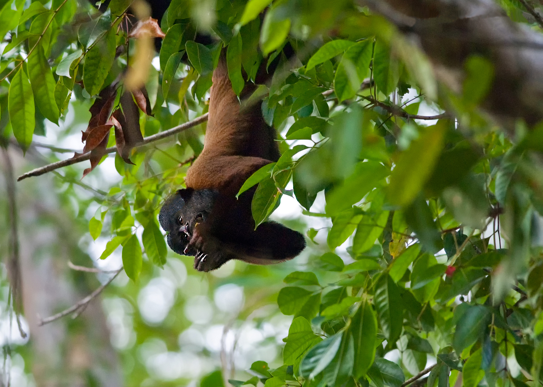 Red-backed bearded saki (Chiropotes sagulatus or C. chiropotes) in Guyana.